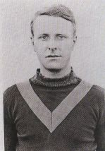 Photo of Charlie Lilley taken before 1915